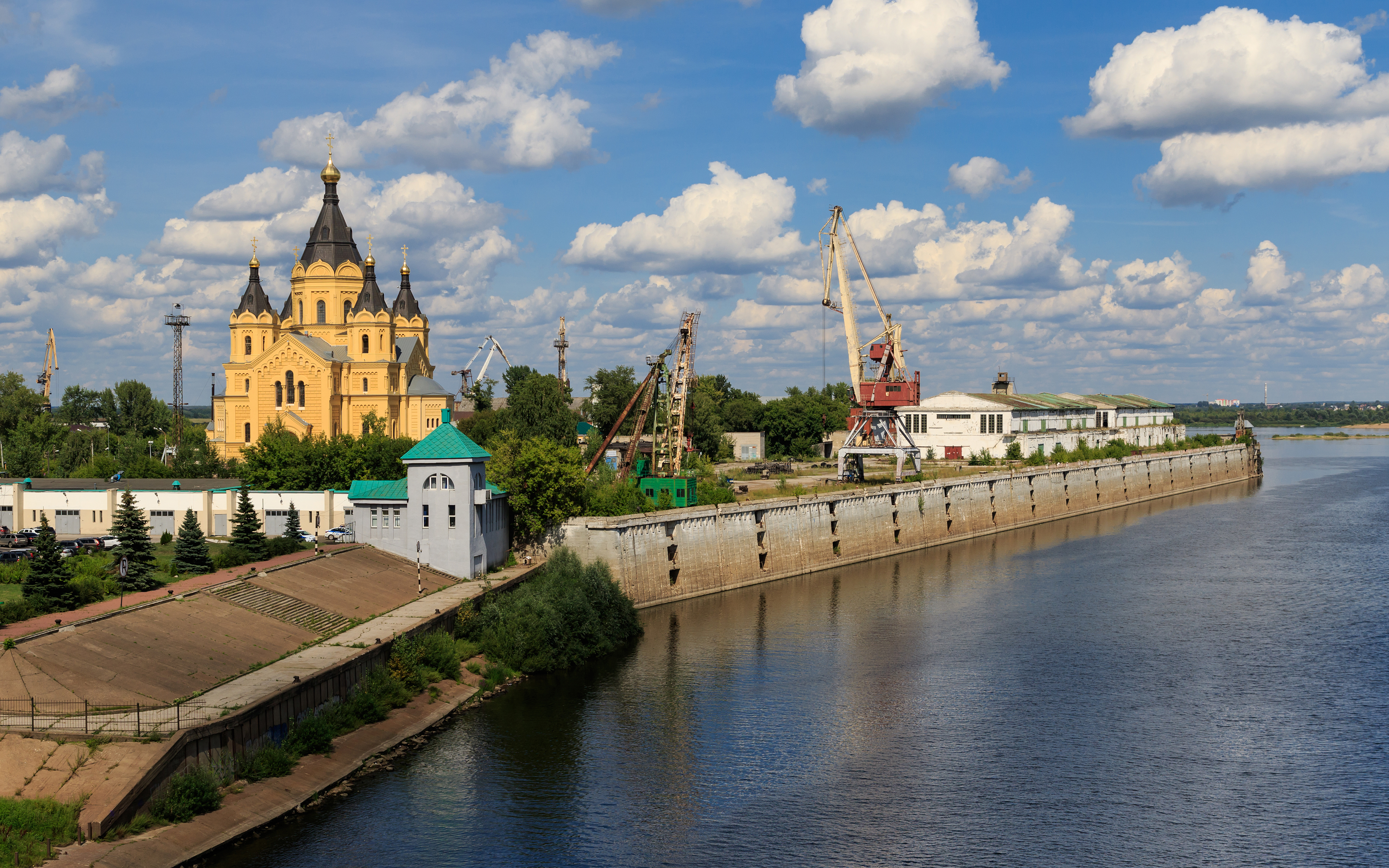 View of Oka/Volga confluence and Church of Alexander Nevsky in Nizhny Novgorod, Russia